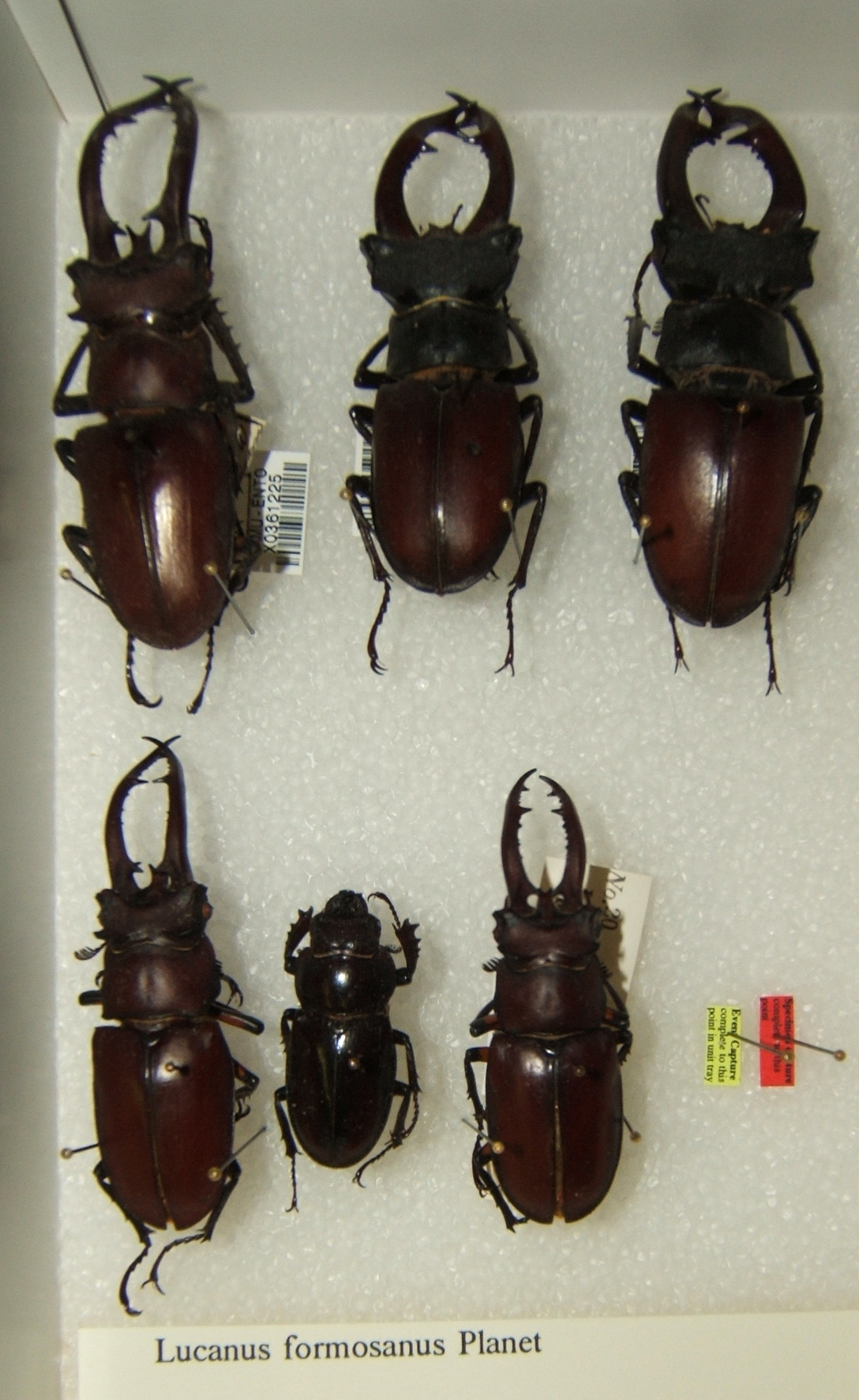 Lucanus formosanus adult variation taken by Shawn Hanrahan at the Texas A&M University Insect Collection in College Station, Texas.